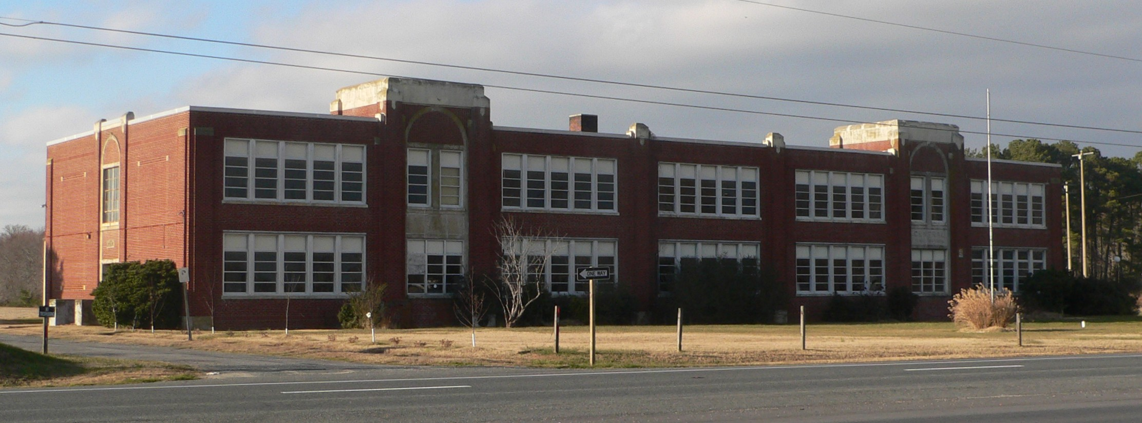 Central High School building, located on northwest side of U.S. Highway 13 northeast of Painter in Accomack County, Virginia; seen from the southeat, across Hwy 13.